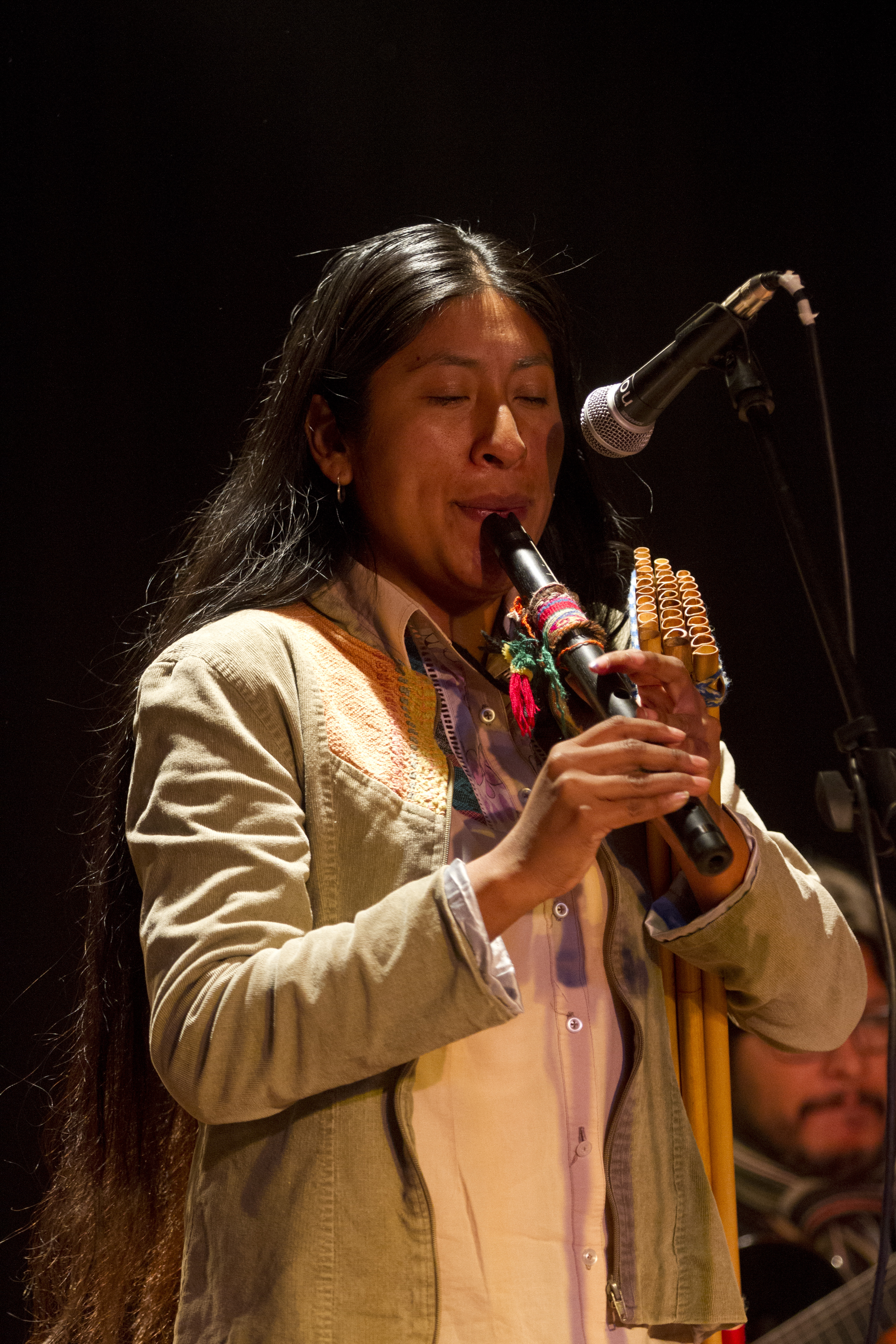 Micaela Chauque "Huella argentina" Tilcara, Jujuy.